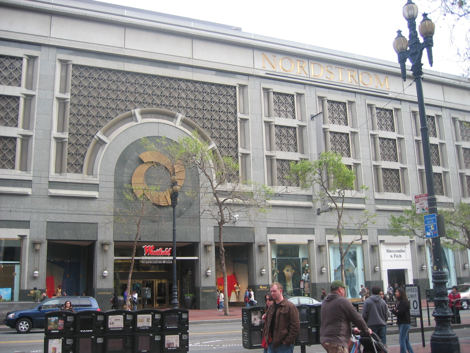 Nordstrom on Market Street, in downtown San Francisco.